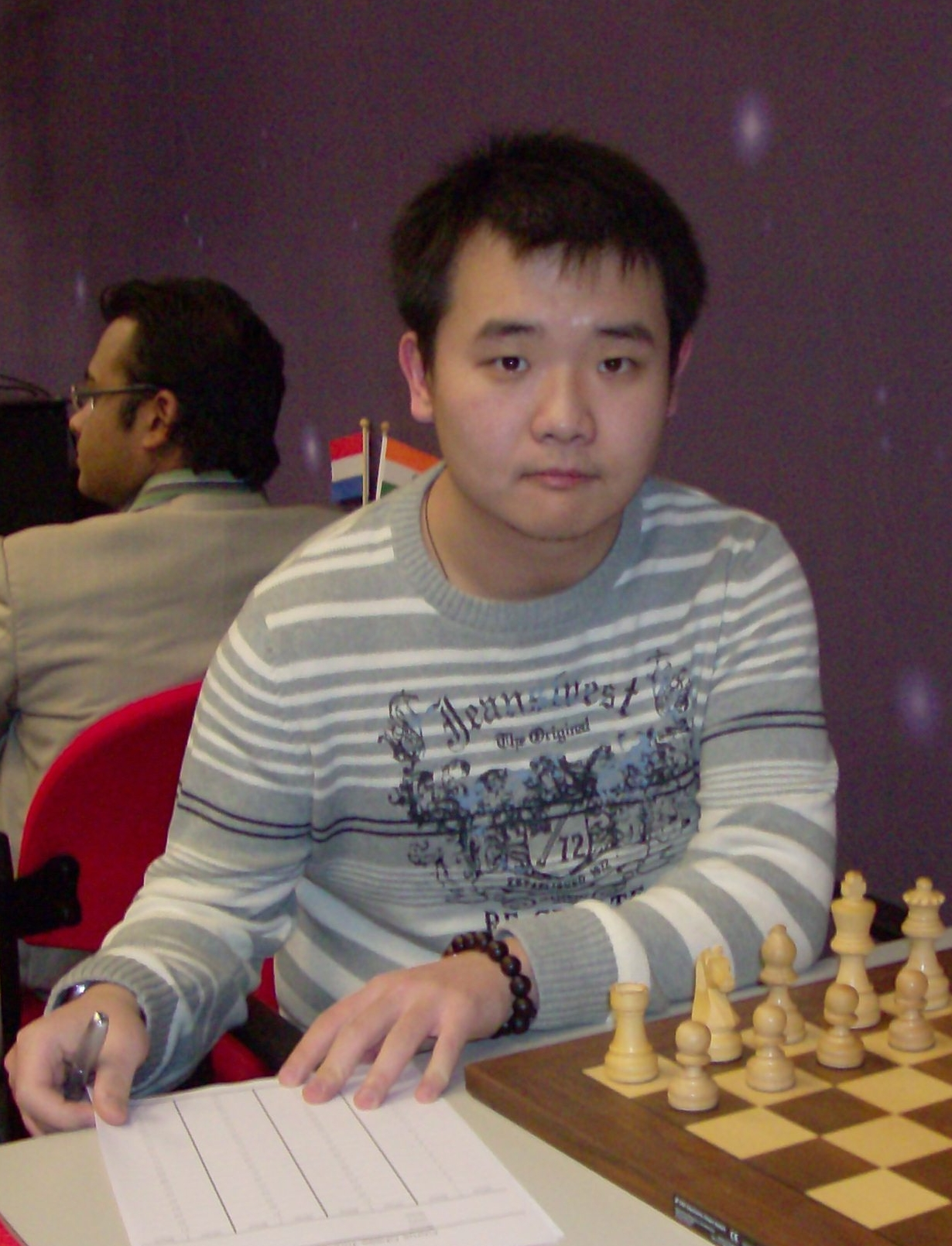 Li Chao, chess grandmaster from China, at Wijk aan Zee 2010